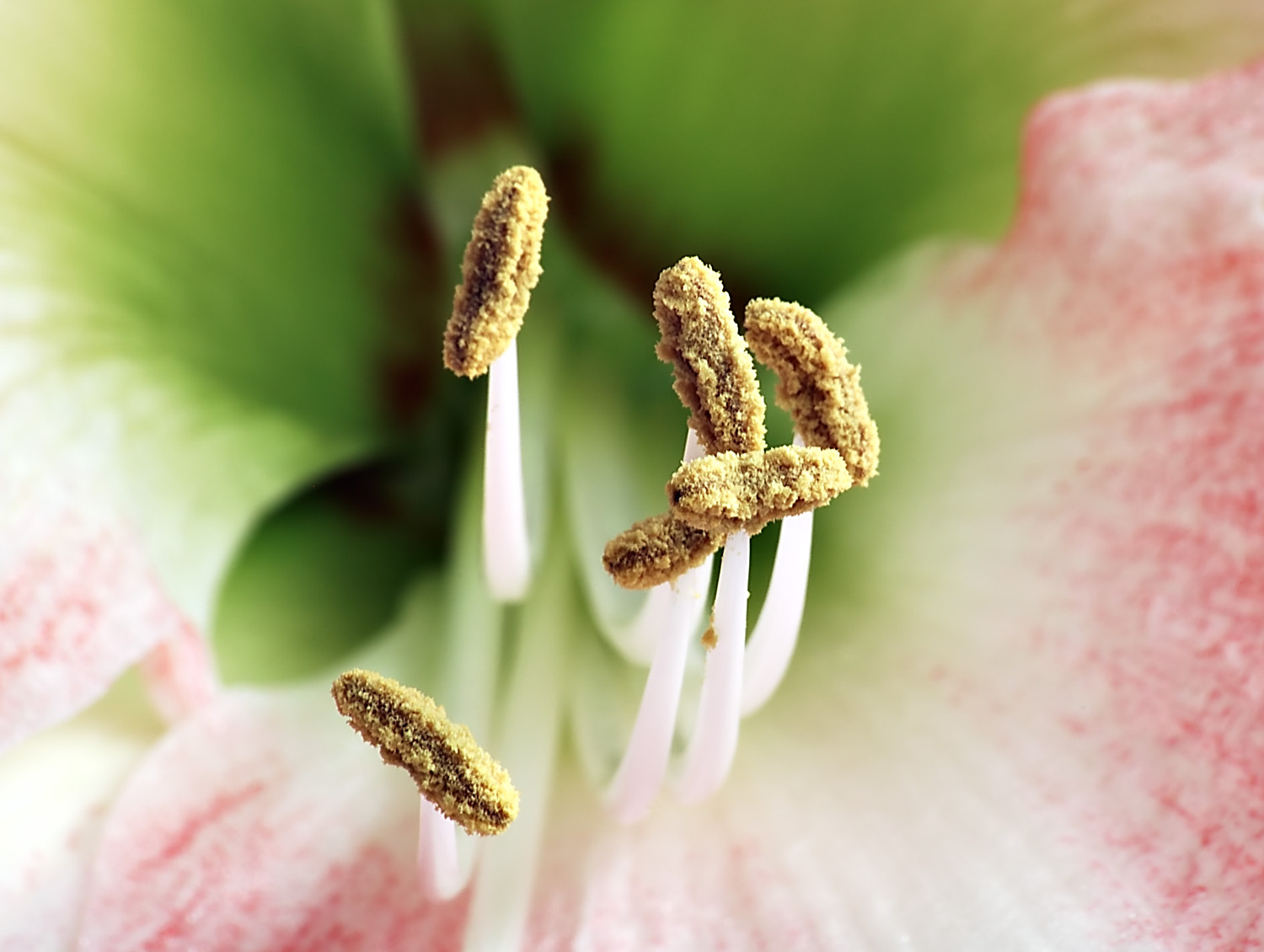 This image shows the stamens of a Hippeastrum flower.